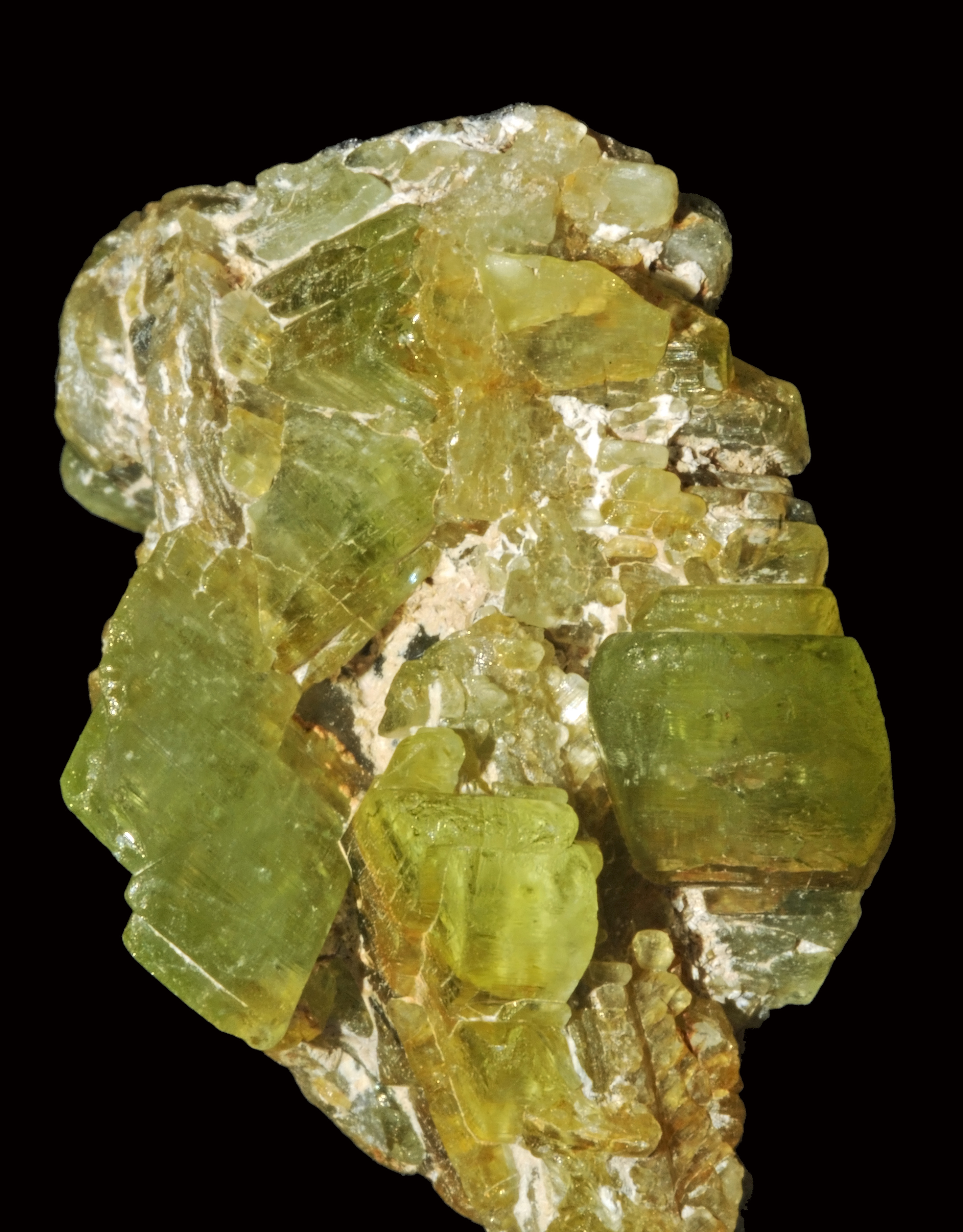 crystals of forsterite var. peridot : Manshera, Naran-Kagan Valley, Kohistan District, Khyber Pakhtunkhwa (North-West Frontier Province), Pakistan